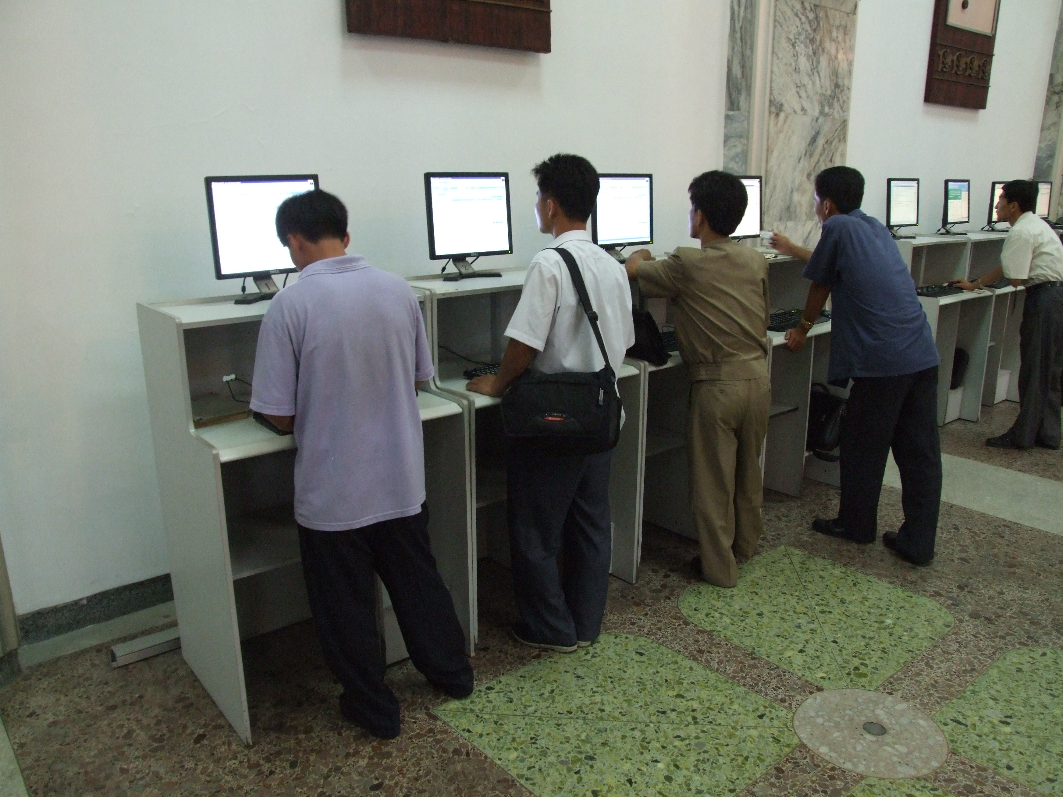 Searching for books in Grand People's Study House